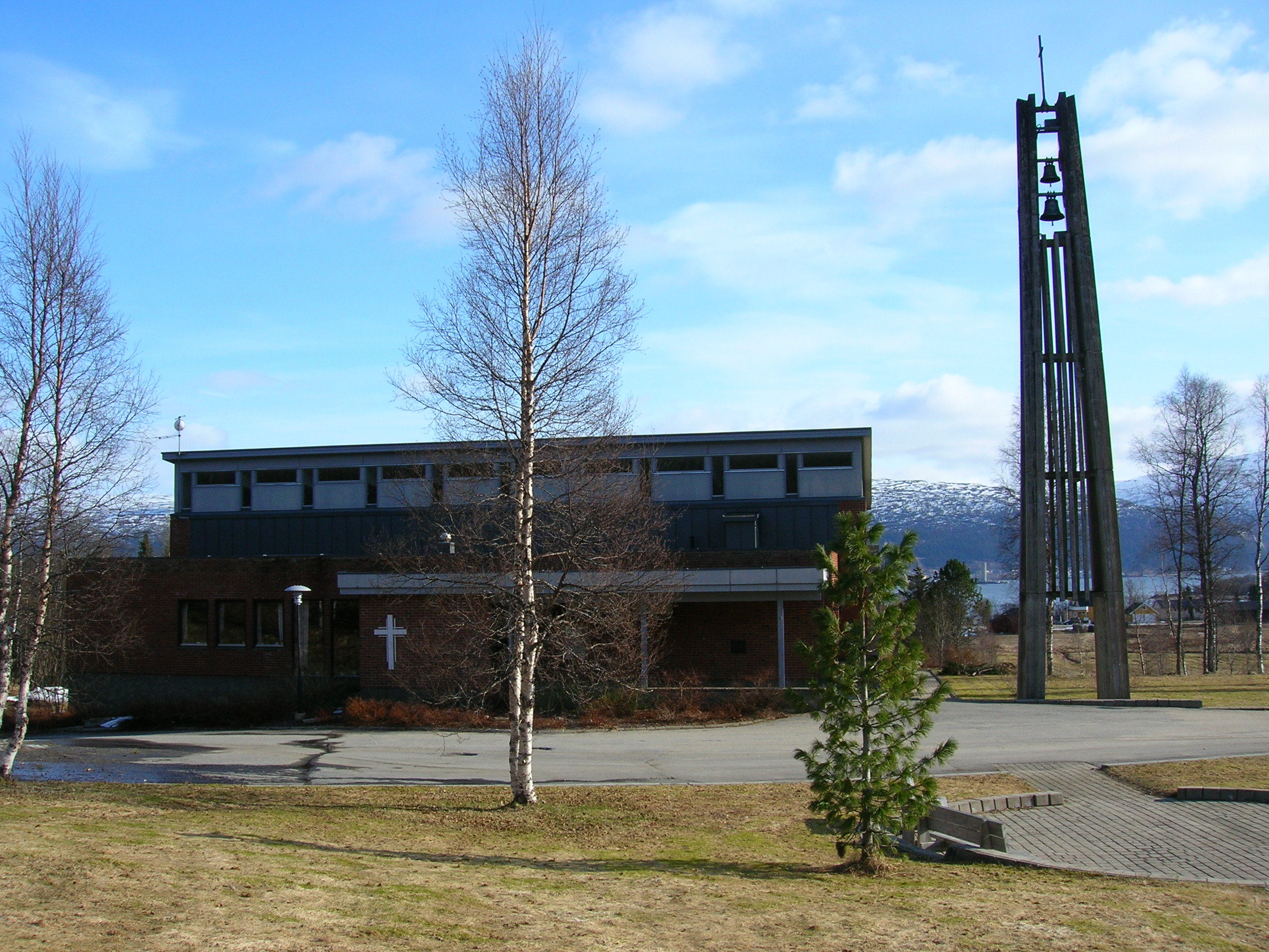 Ytteren church, Mo i Rana, Nordland, Norway, Photo May 2, 2007 with a Nikon Coolpix 5600 5,1 Megapixel camera.